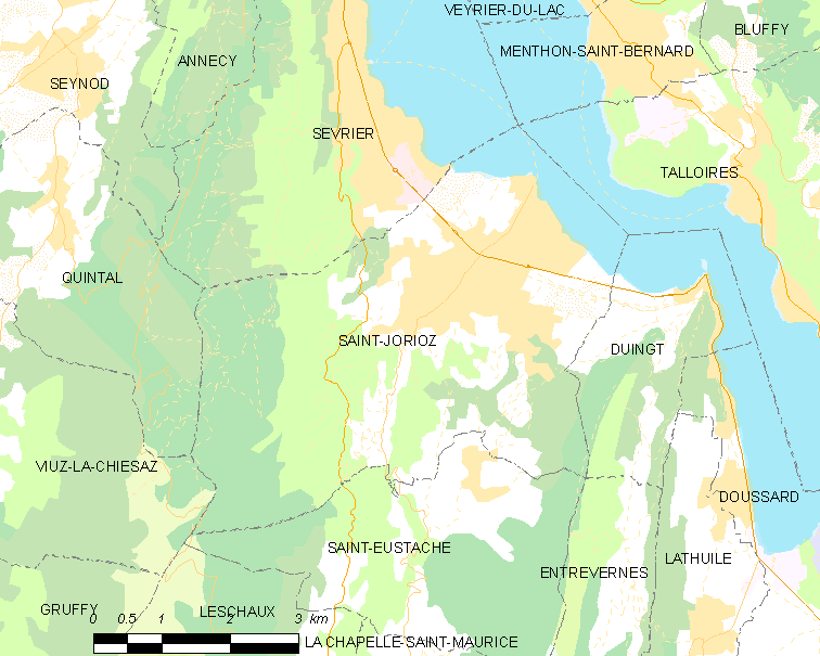 Map of French municipality Saint-Jorioz